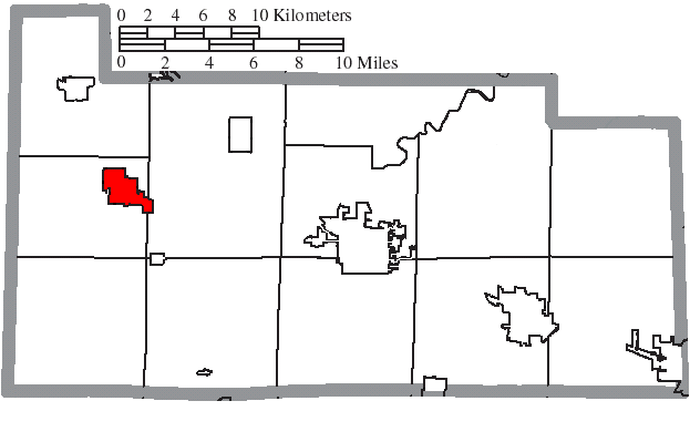 Map of the municipal and township boundaries of Sandusky County, Ohio, United States, as of the 2000 census, with the location of the village of Gibsonburg highlighted. Township borders are shown only in unincorporated areas in order to differentiate incorporated and unincorporated areas more clearly.